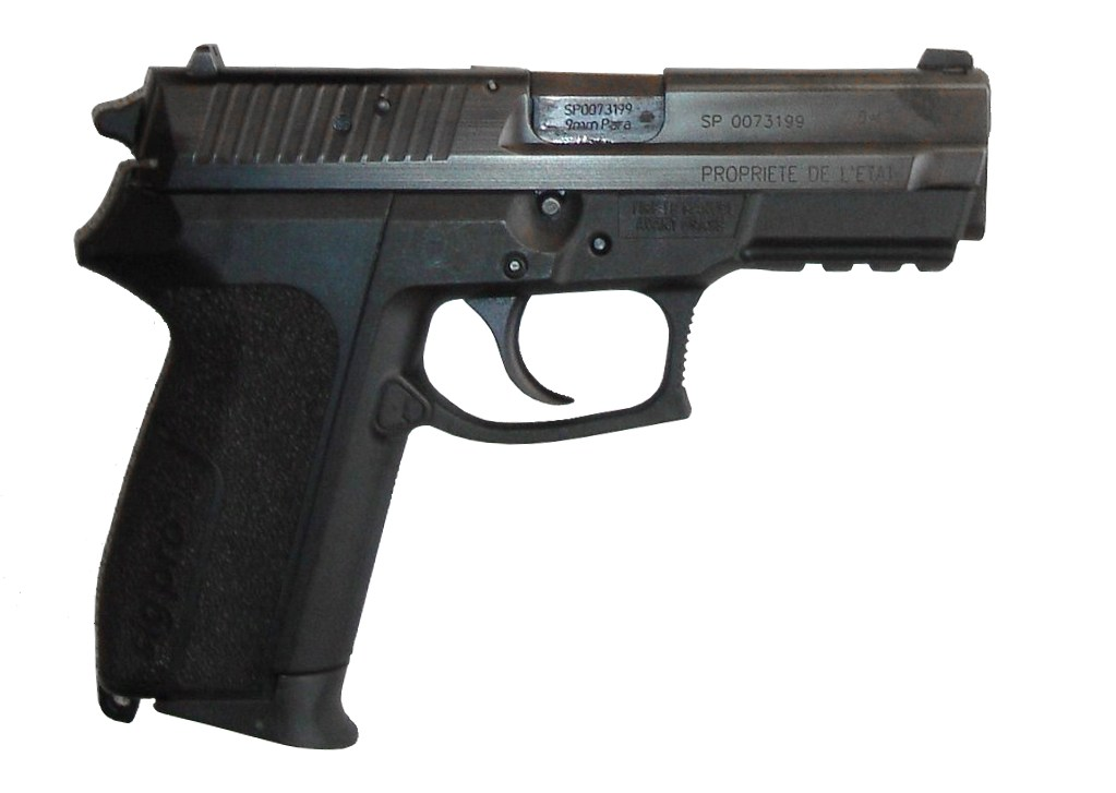 A SP 2022 issued to the French National Police. Inscribed "PROPRIETE DE L'ETAT" ("Property of the State")